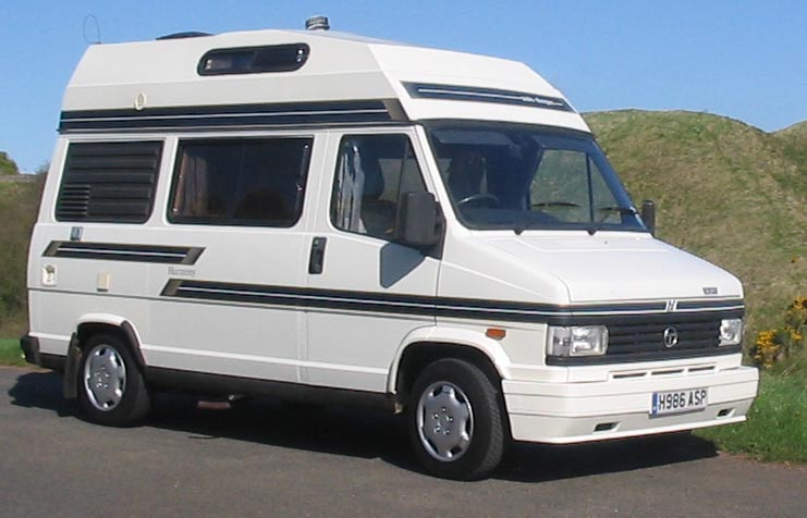 An Autosleeper Harmony Campervan on a Talbot Express base vehicle, 1991.